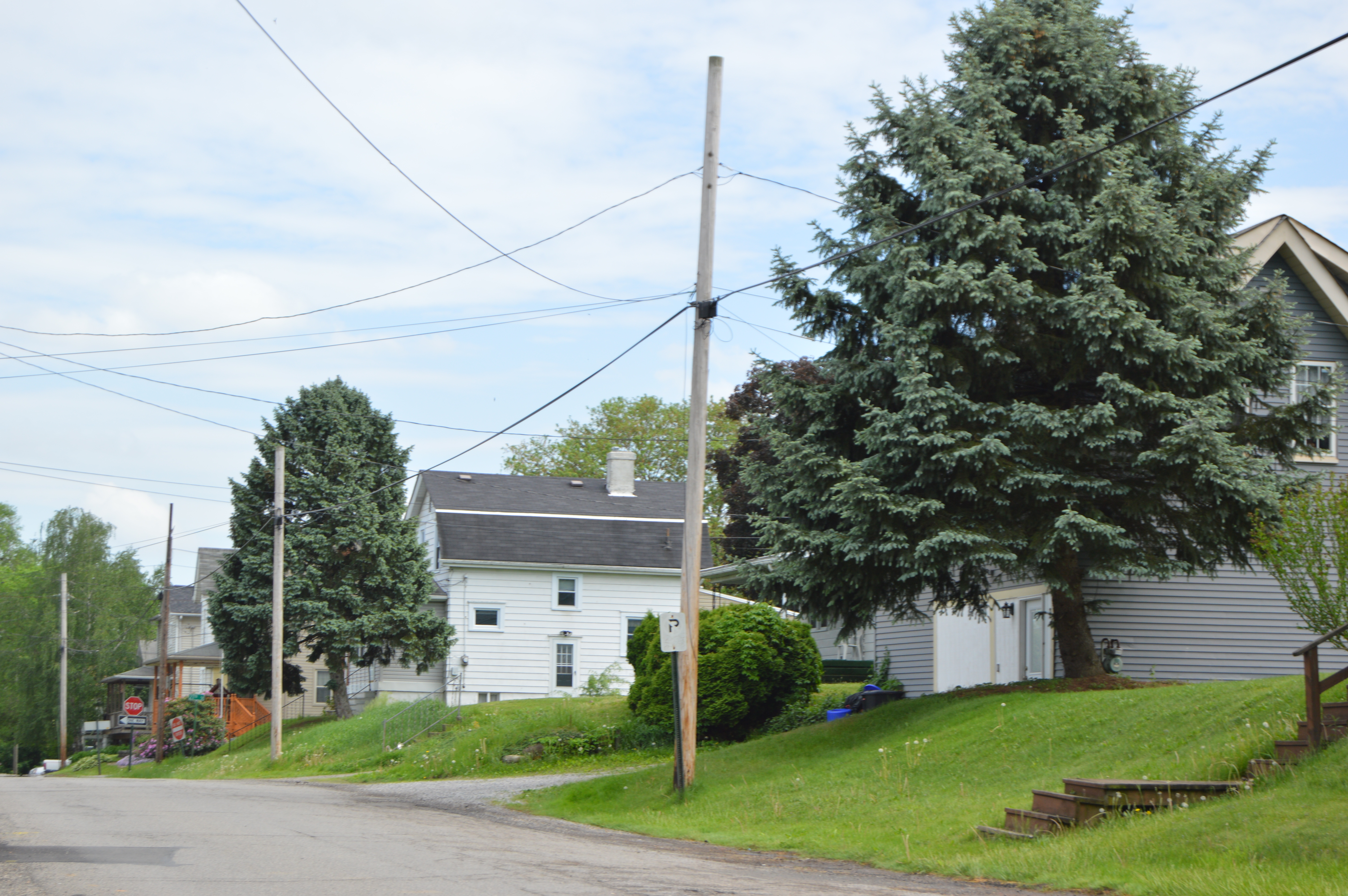 Houses on the western side of Twelfth Avenue, looking south from the Twenty-eighth Street intersection, in White Township, Beaver County, Pennsylvania, United States.